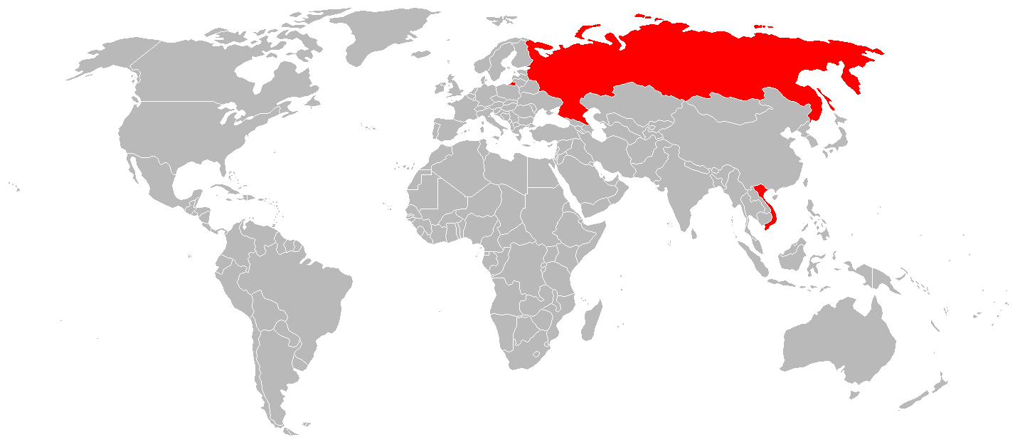 World map of Gepard class frigate operators